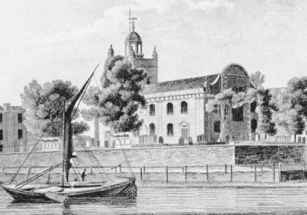 All Saints Church Isleworth, early nineteenth century.